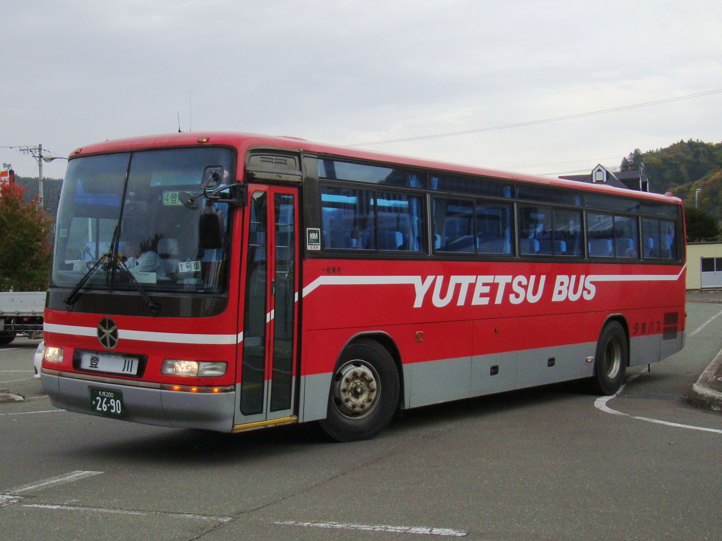 Yūbari city line